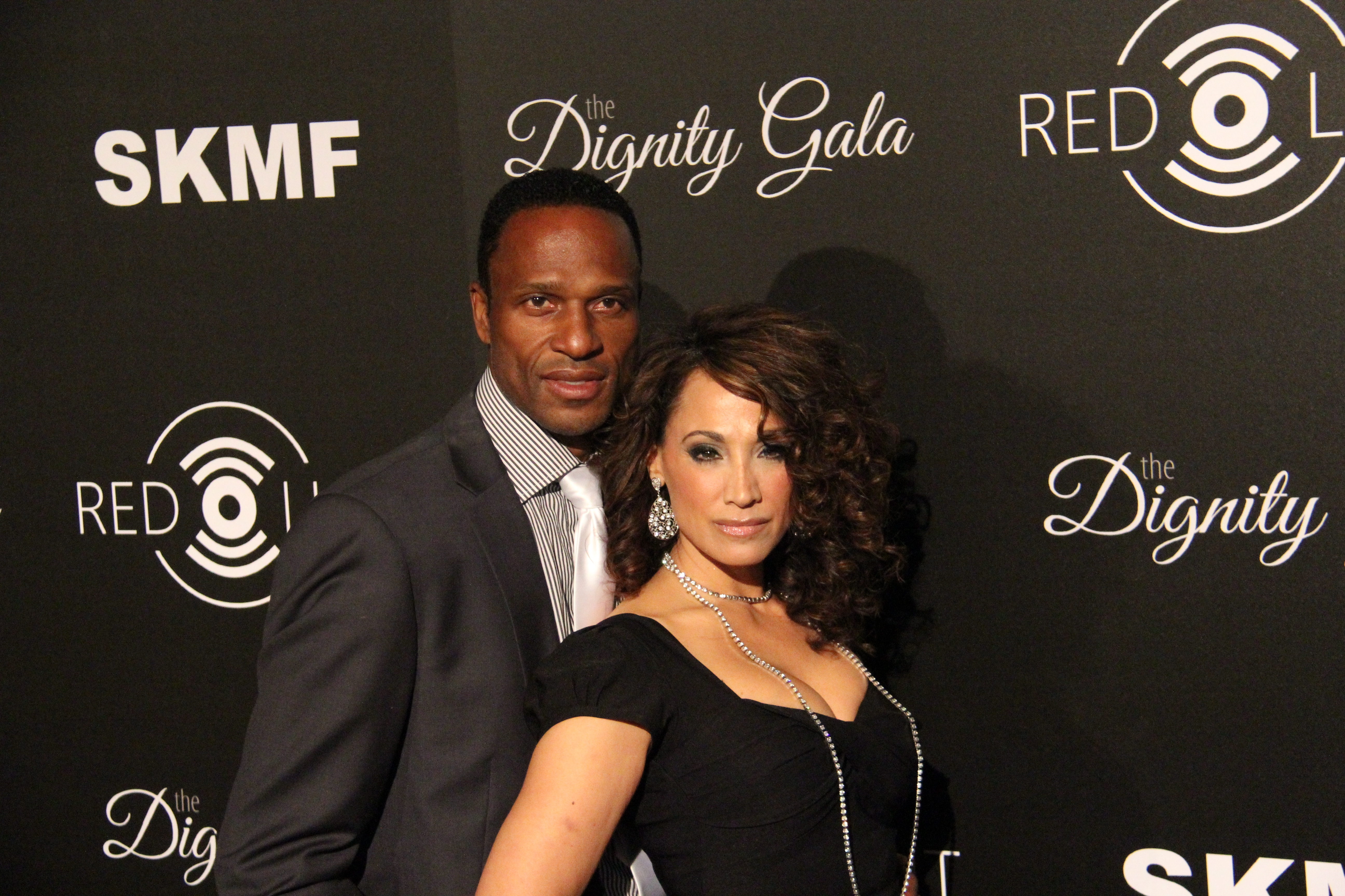 Willie Gault (former NFL player) at Redlight Traffic's inaugural Dignity Gala (Michelle Tiu / Neon Tommy)